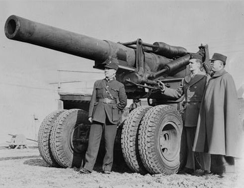 Aberdeen Proving Ground, Maryland. Lieutenant Guy H. Drewry, U.S.A. (center), aide-de-camp to Major-General Charles T. Harris, Jr., commanding the Aberdeen Proving Ground, pointing out important features of the eight inch howitzer to Chinese Major-General Dai-Fung King (right) and his aide-de-camp, Captain Zeit Wang (left). The two are members of the Chinese military mission to the United States.